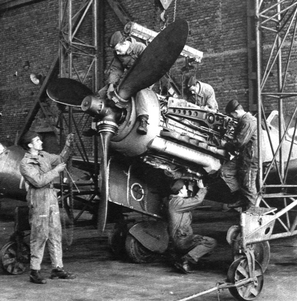 Czech crews perform maintenance on a Avia S-199